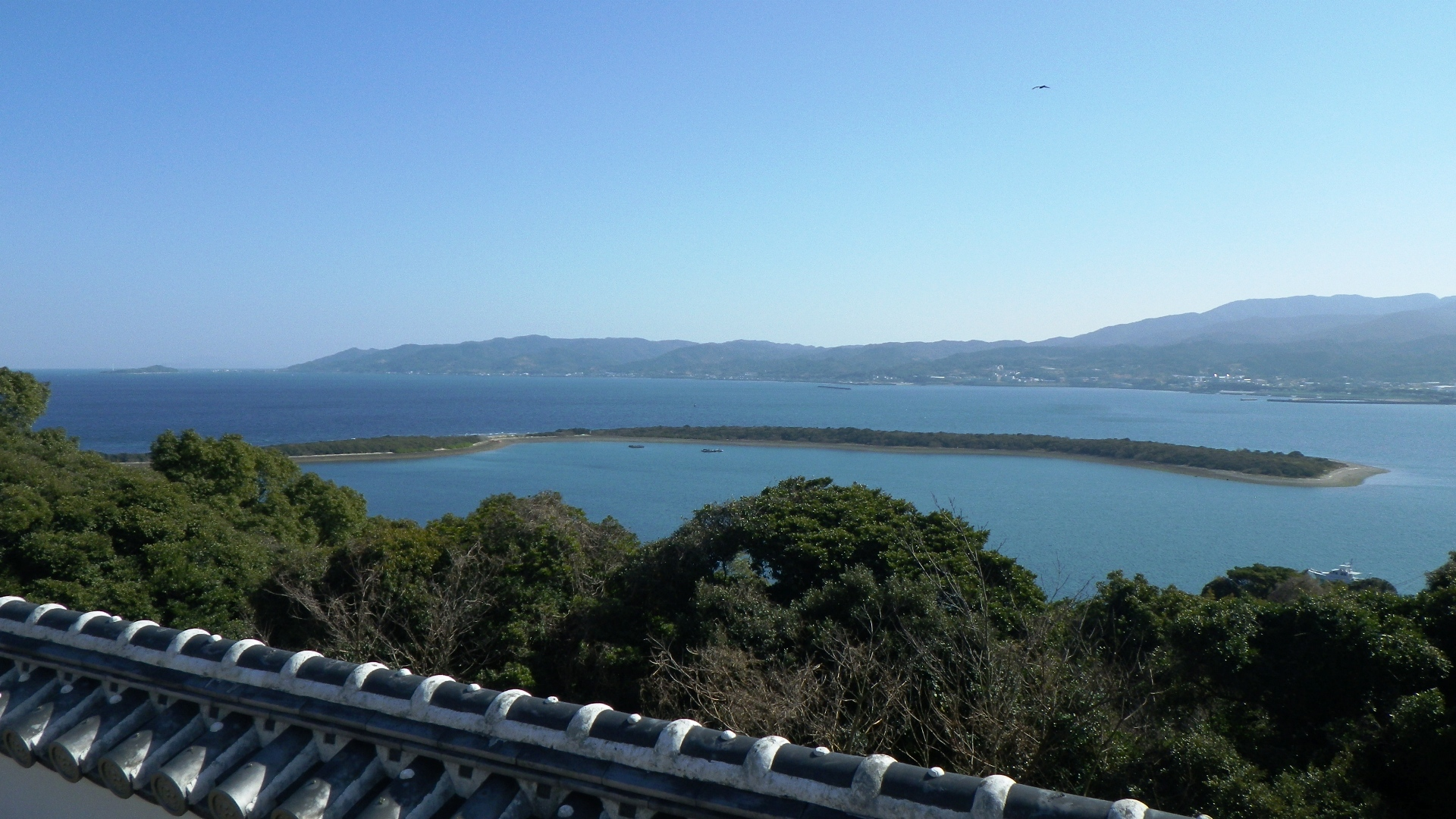 Tomoezaki, Sakasegawa, Tsujishima island, and Amakusa-nada. from Tomioka castle(Reihoku, Kumamoto).